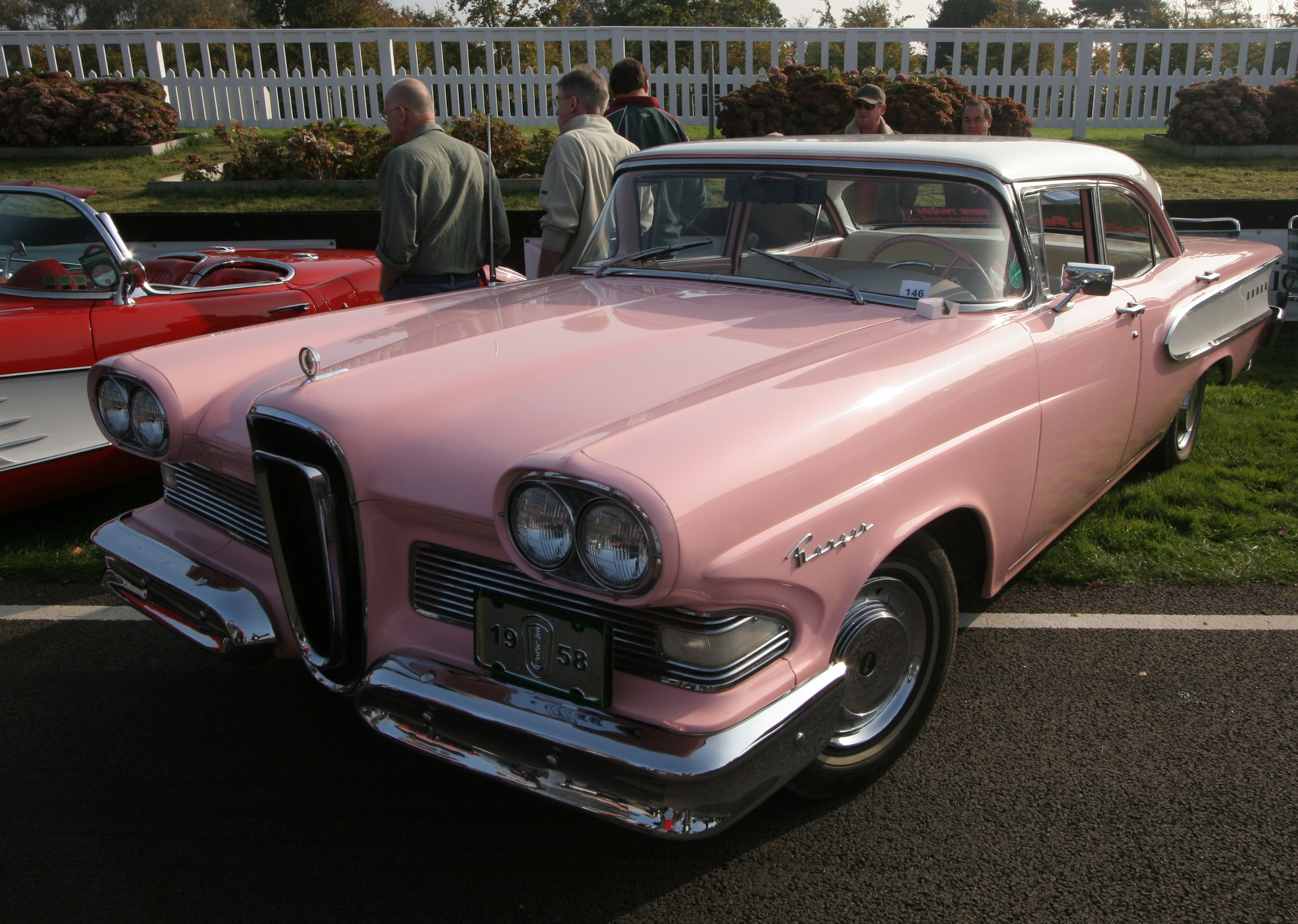 1958 Edsel Ranger 4-Door Sedan. The Ranger was produced by the former Mercury-Edsel-Lincoln Division of the Ford Motor Company for the 1958, 1959 and 1960 model years. Goodwood Breakfast ClubGoodwood Breakfast Club - Edsel Ranger